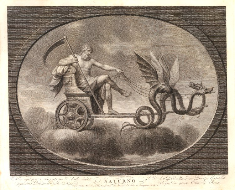 Published in Rome.